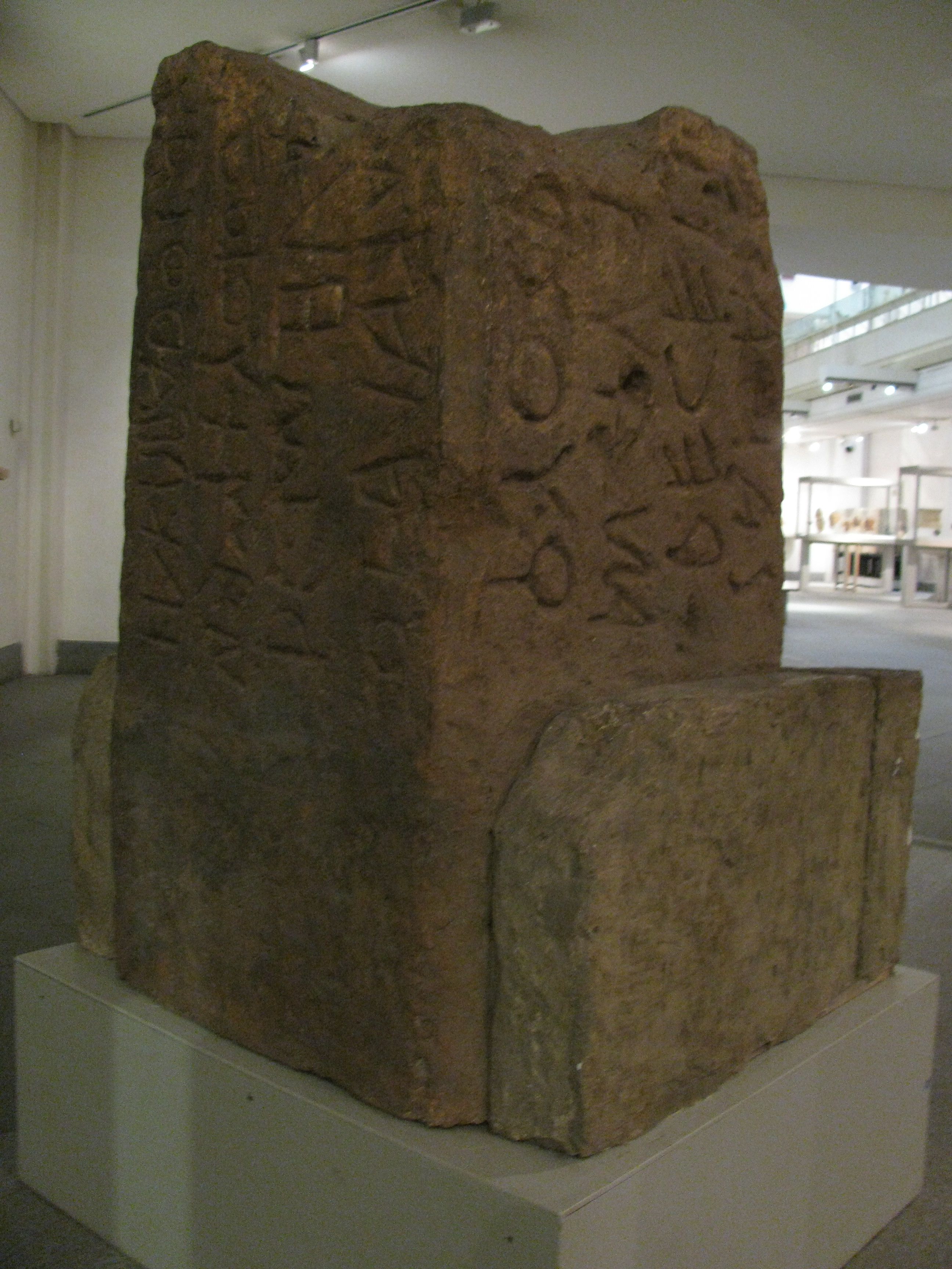 Roman stone so-called "Lapis Niger" with archaic text, sides 2 and 3. Diocletian's Baths museum, Rome